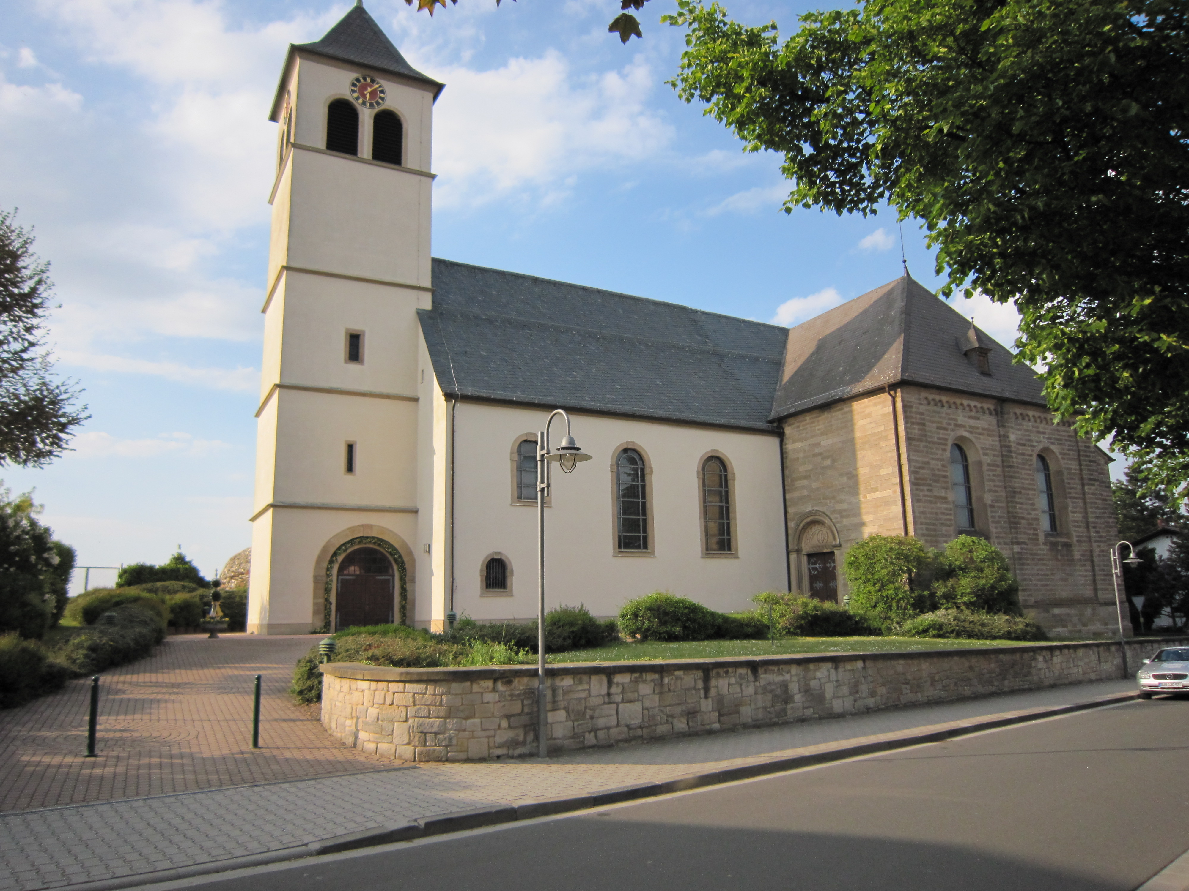 The Catholic Church of Hettenleidelheim Pälzisch: Die kadolisch Kerch vunn Hettrum